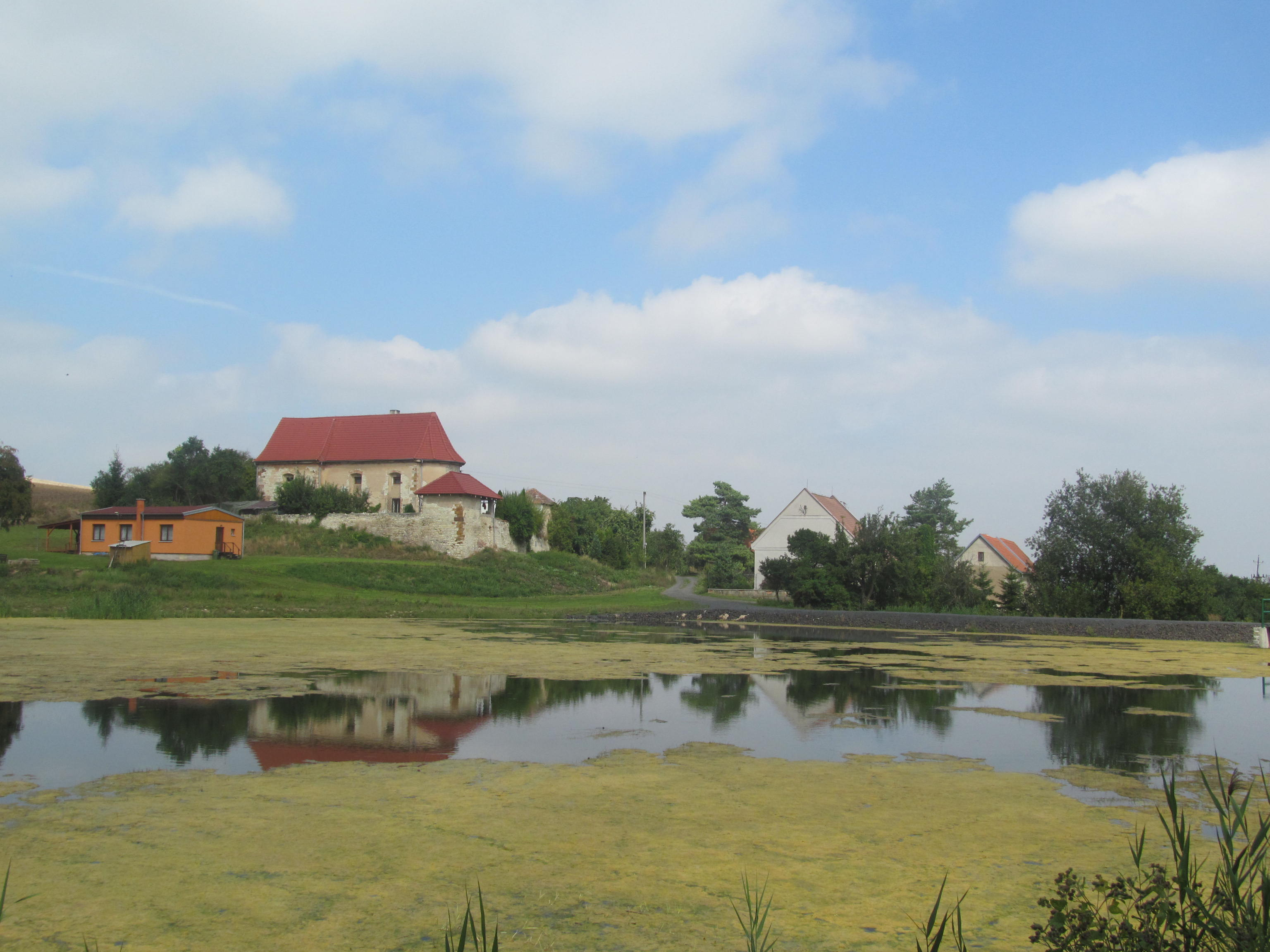 Total view of the perished village Selmice